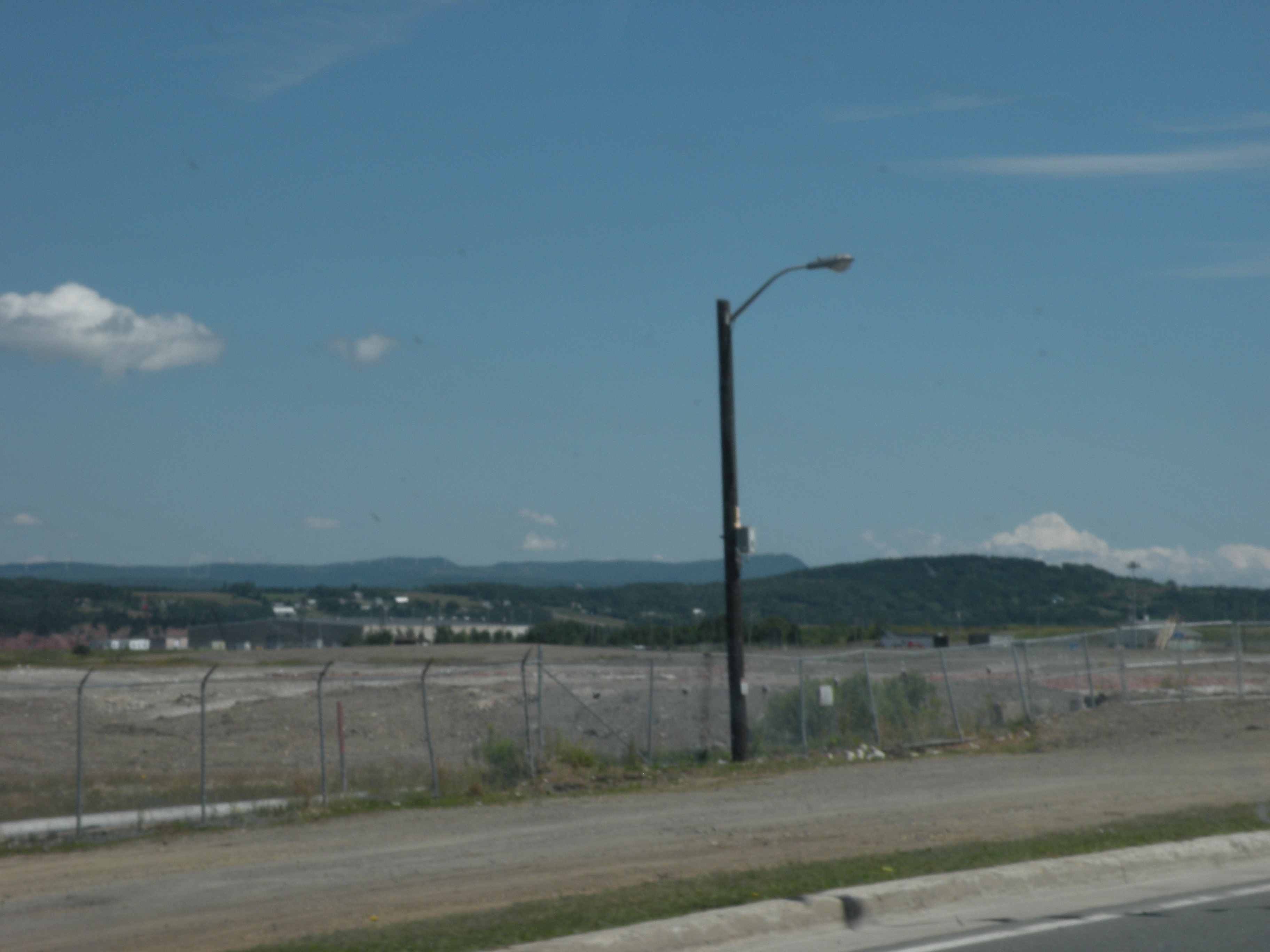 Ruins of the pulp and paper factory in Dalhousie, New Brunswick, Canada.